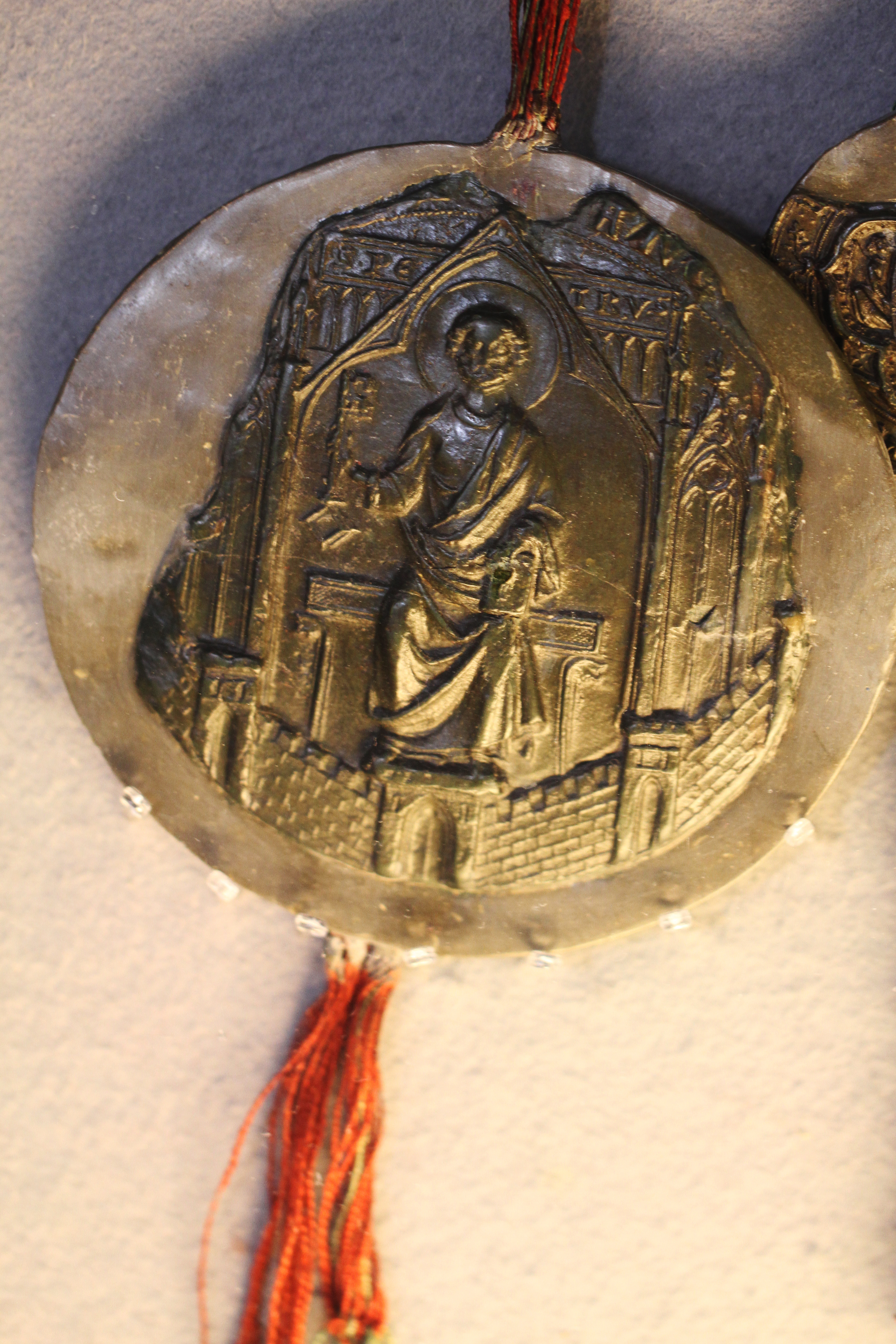 Gothic seal of the first Cologne Constitution in 1396. Permanent exhibition Kölnisches Stadtmuseum, in Cologne, Germany